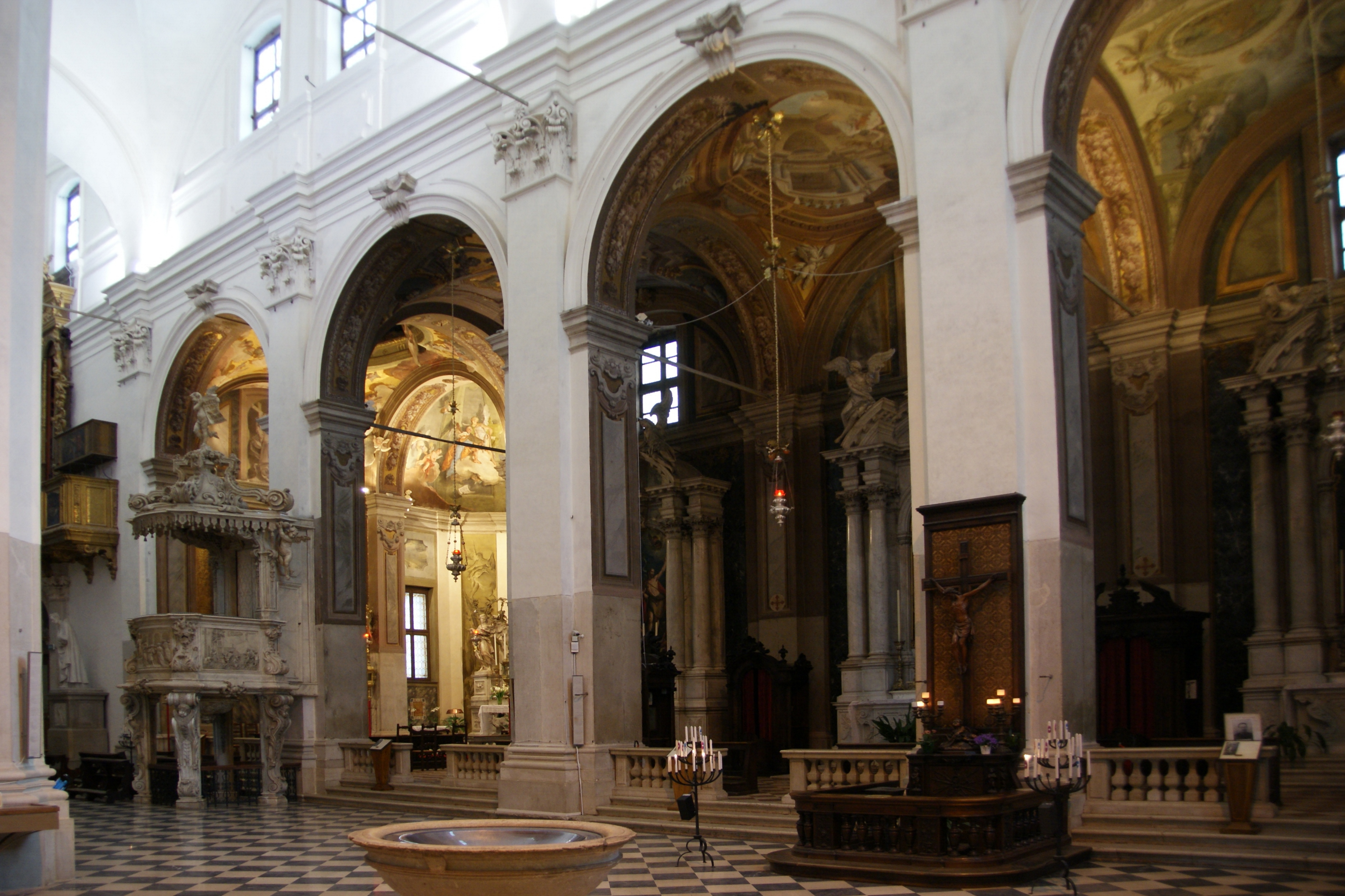 Udine, interior of Cathedral